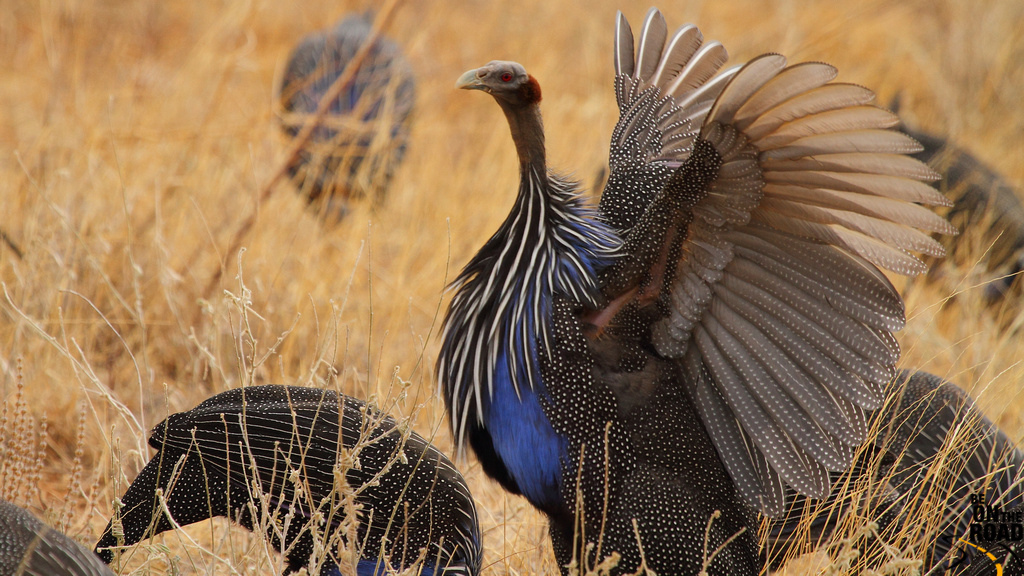 Beautiful Vulturine Guineafowl flapping its wings